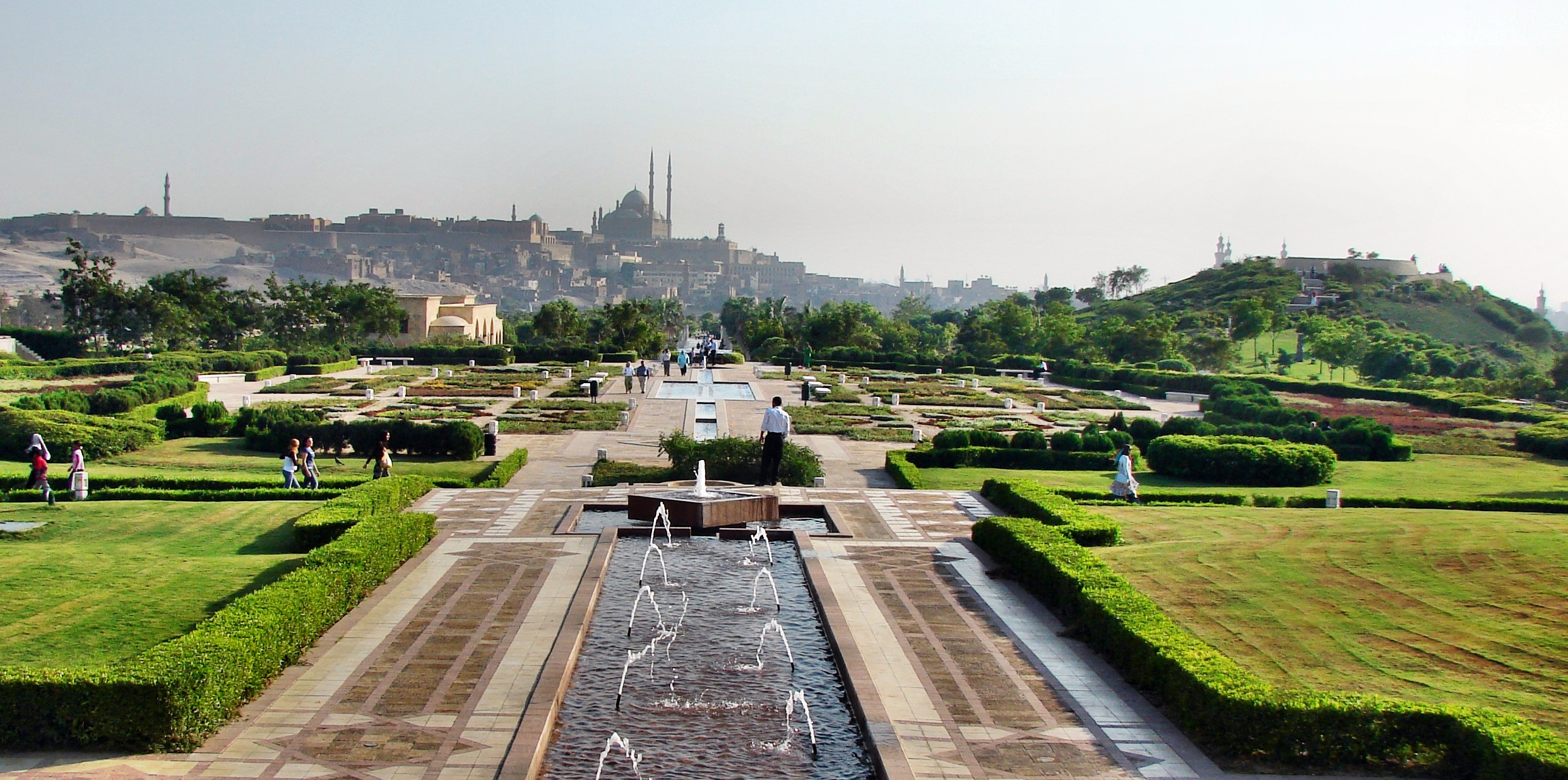 Azhar Park